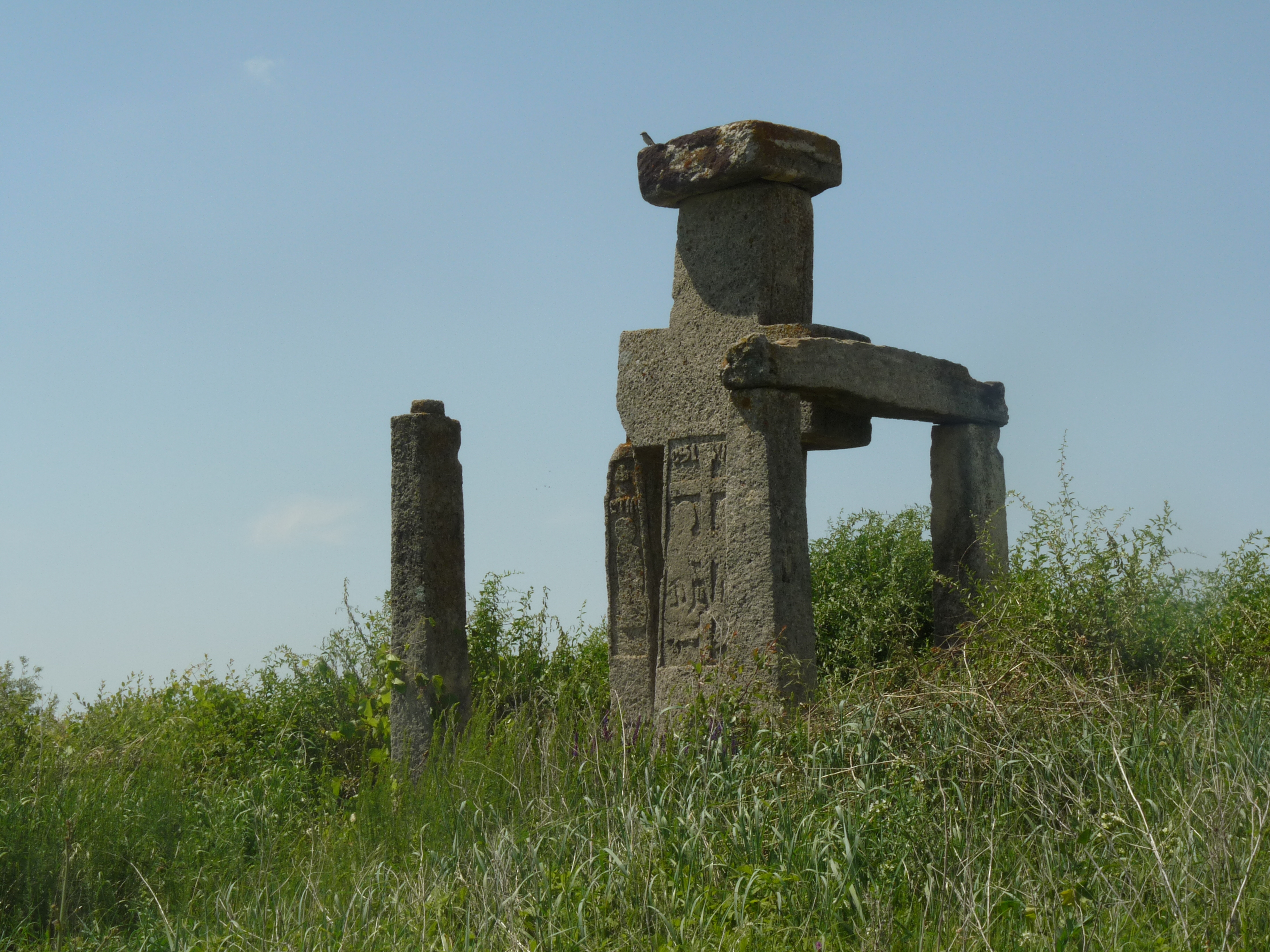 Manafu cross near Greceanca, Breaza commune, Buzău County, RomaniaRomână: Crucea Manafului de lângă satul Greceanca, comuna Breaza, judeţul Buzău, România